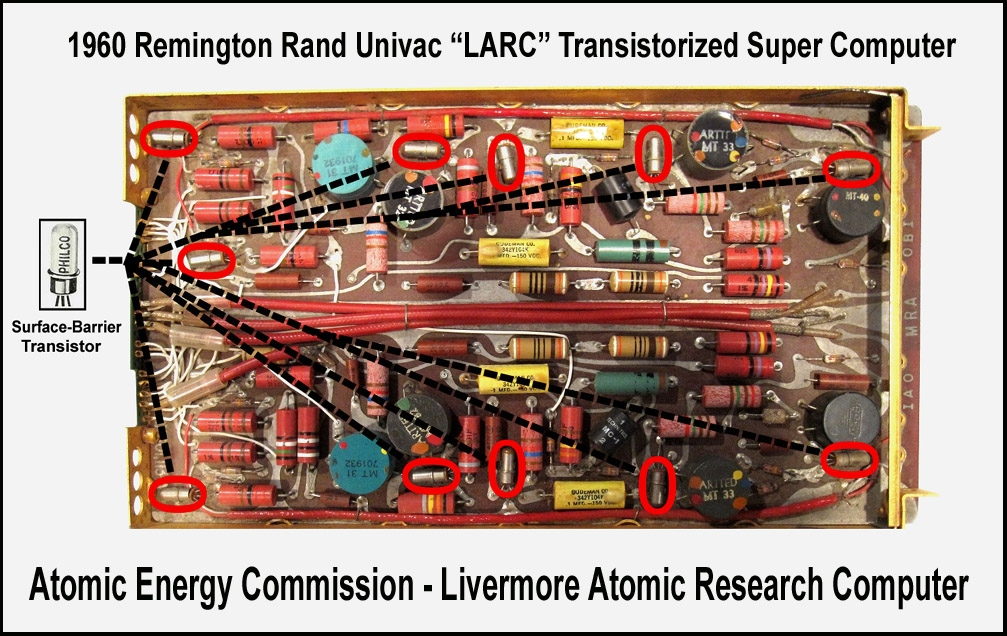 This is a photo of a memory-read amplifier circuit board card that is from a 1960 Remington Rand Univac LARC transistorized supercomputer. The original photo and copyright owner is from the website: which granted me full permission to use, alter or modify this photo on any Wikipedia and Wikimedia pages. This original photo was enhanced and modified by me with Adobe Photoshop, to show the number and locations of the Philco surface-barrier transistors that were used in this circuit board card.